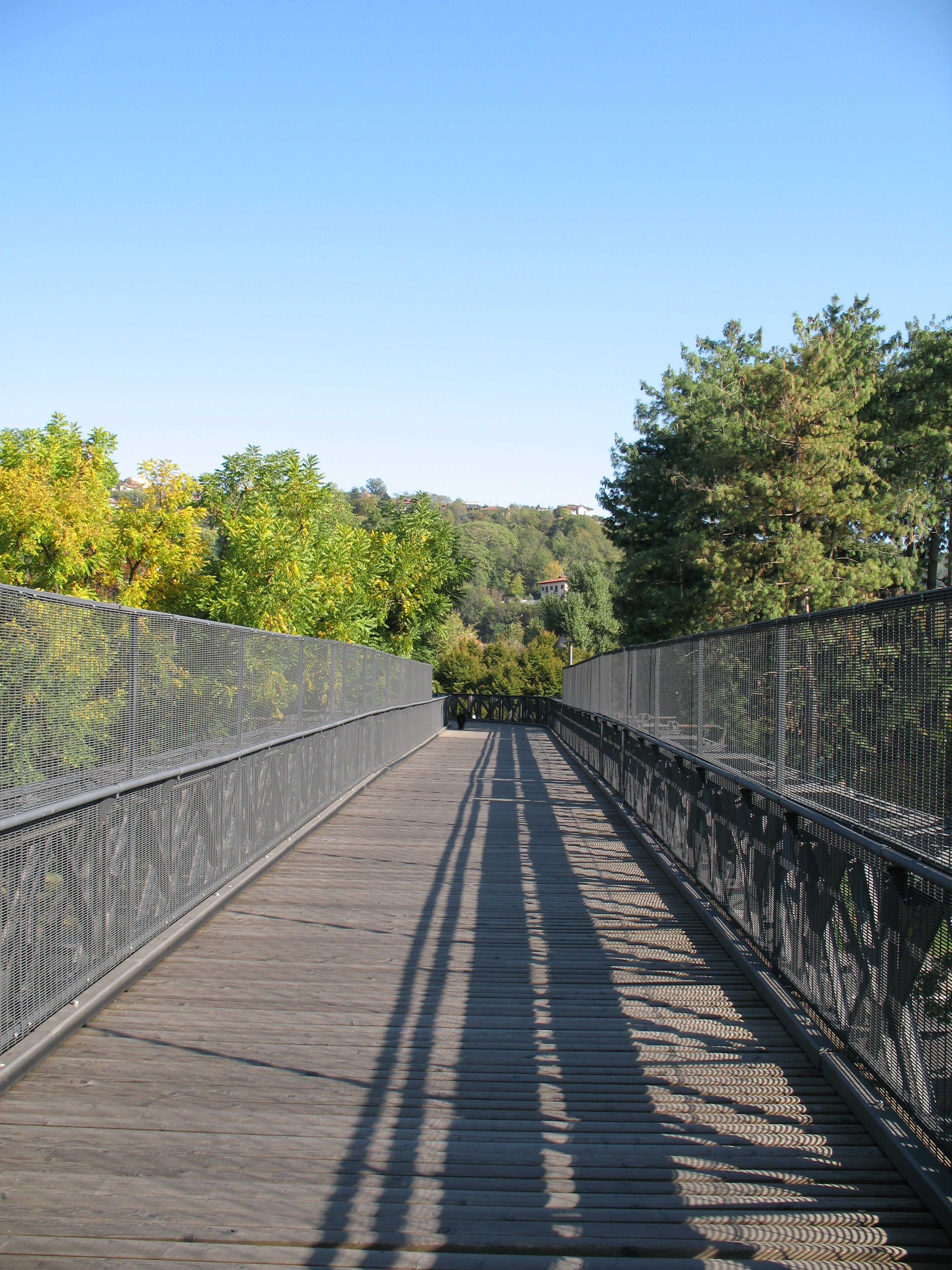 Ponte Bailey (Bailey bridge)